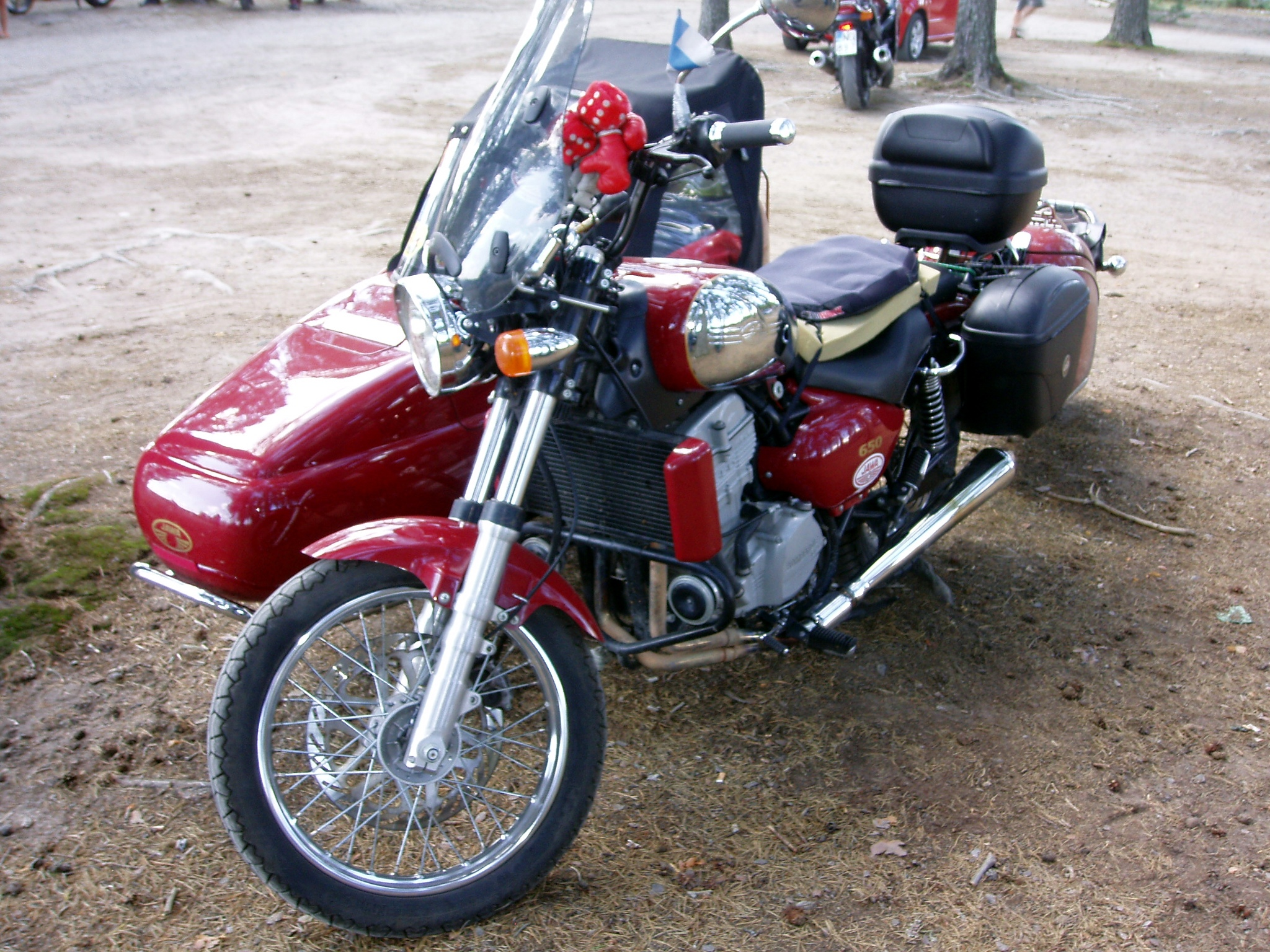 Jawa 650 Classic motorcycle with a Velorex sidecar attached.